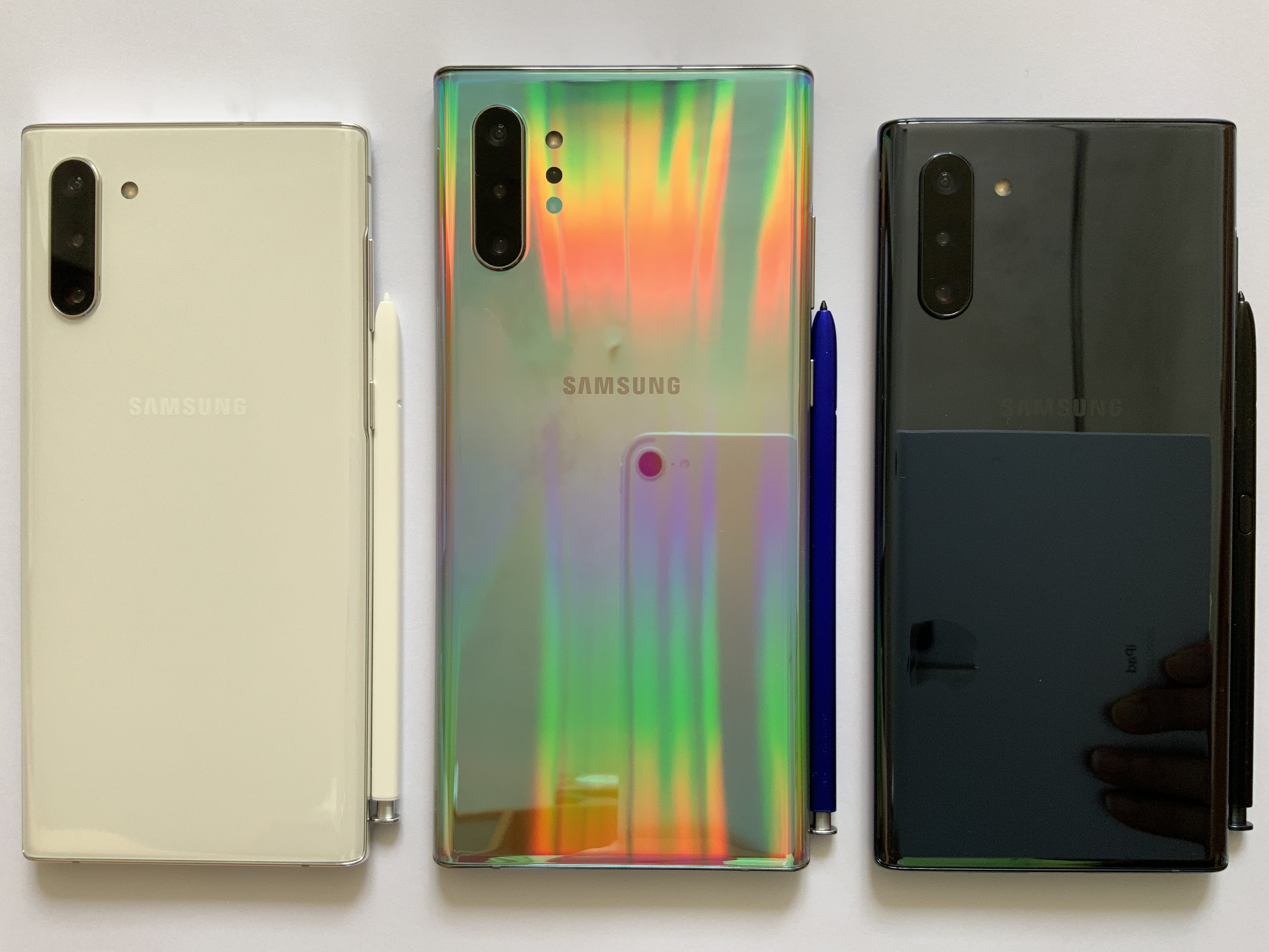 SAMSUNG Galaxy Note10 SAMSUNG Galaxy Note10 5G SAMSUNG Galaxy Note10+ SAMSUNG Galaxy Note10+ 5G